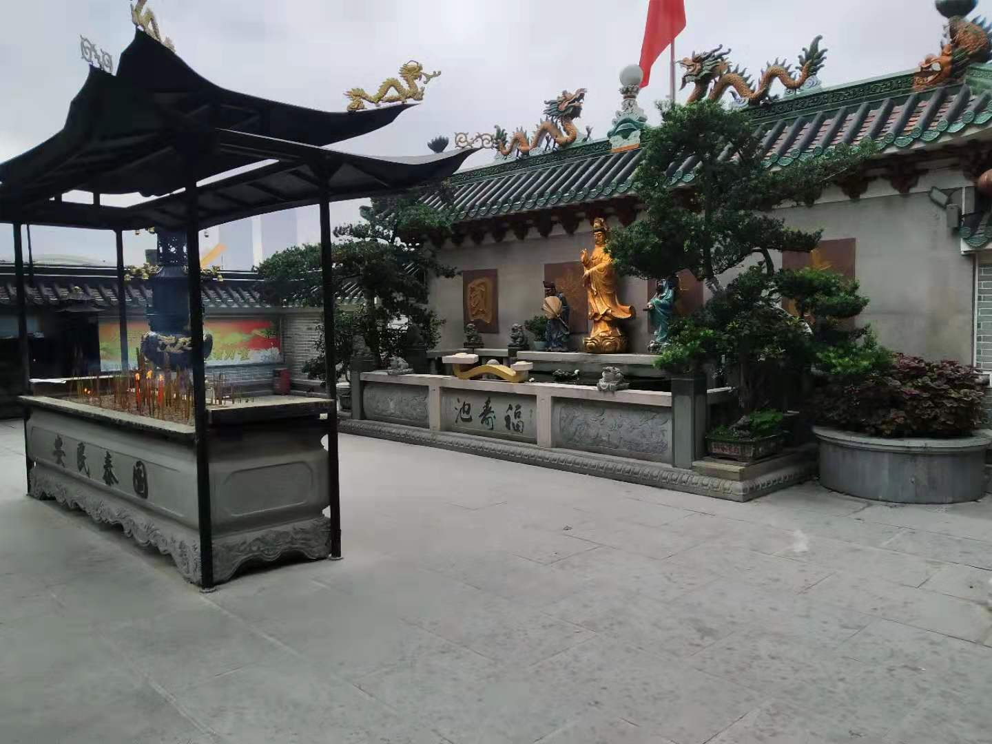 Xishan Temple in Zhongshan, China.